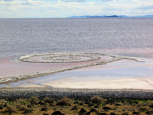 Photograph of a person standing in the middle of Robert Smithson's Spiral Jetty in rural Utah by Michael David Murphy